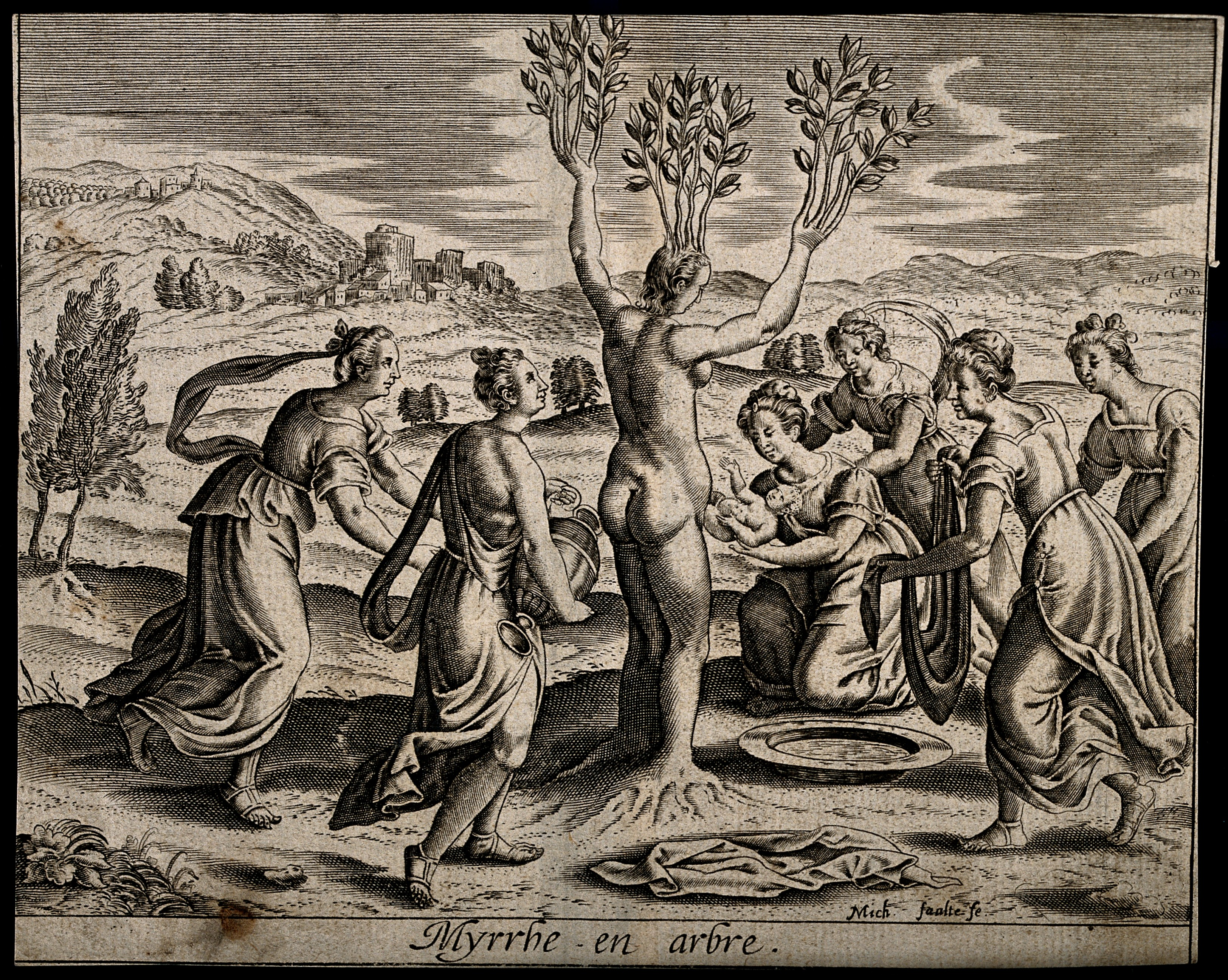 Adonis being born from Myrrha (half woman, half tree) into the arms of Lucina, a nymph. Engraving by M. Faulte, 16--. Iconographic Collections Keywords: myrrha; birth scene; Adonis; Lucina; Michel Faulte; faulte, m.; Myrrha